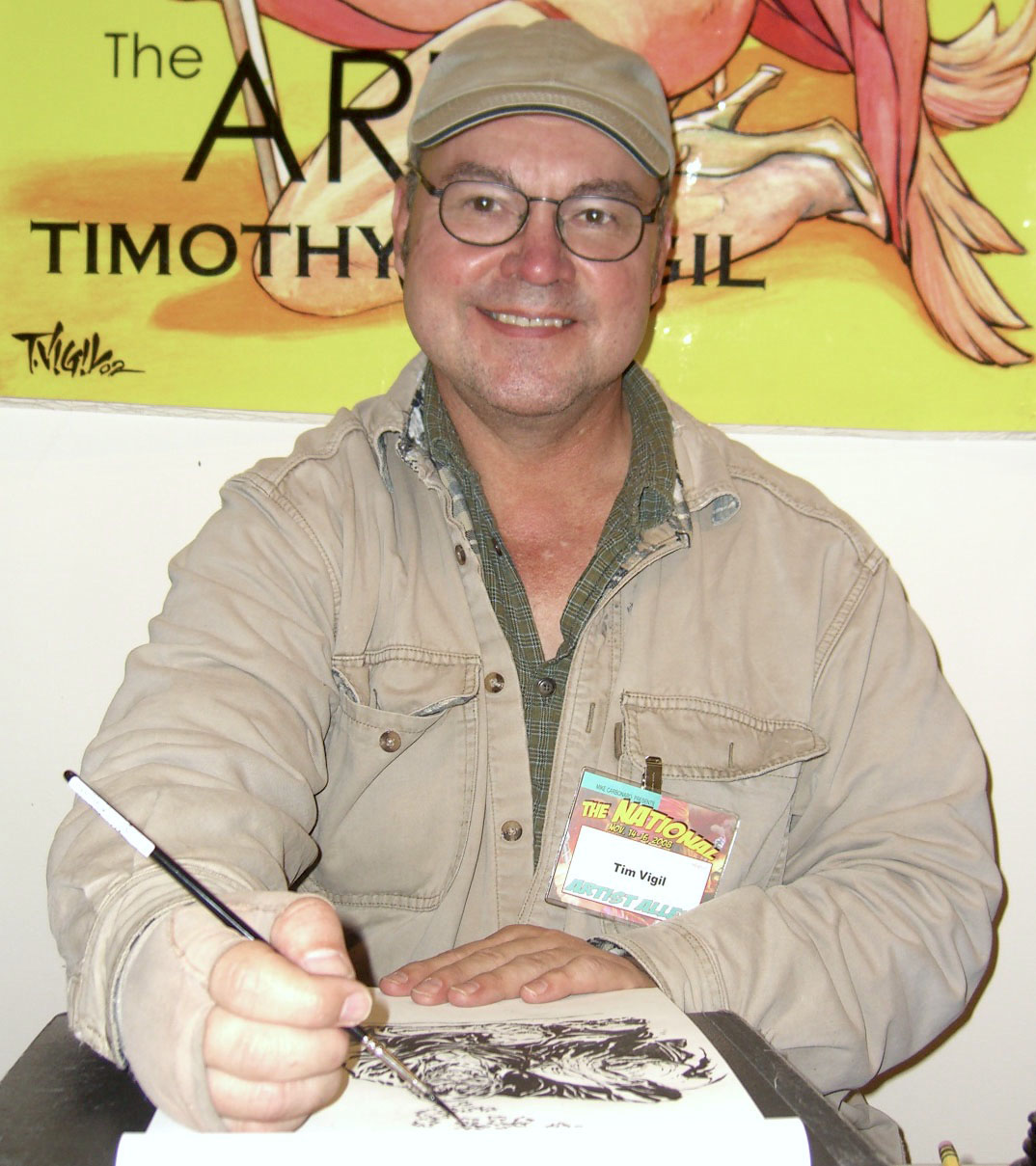 Artist Tim Vigil at the November 2008 Big Apple Convention in Manhattan. This photo was created by Luigi Novi. It is not in the public domain, and use of this file outside of the licensing terms is a copyright violation.